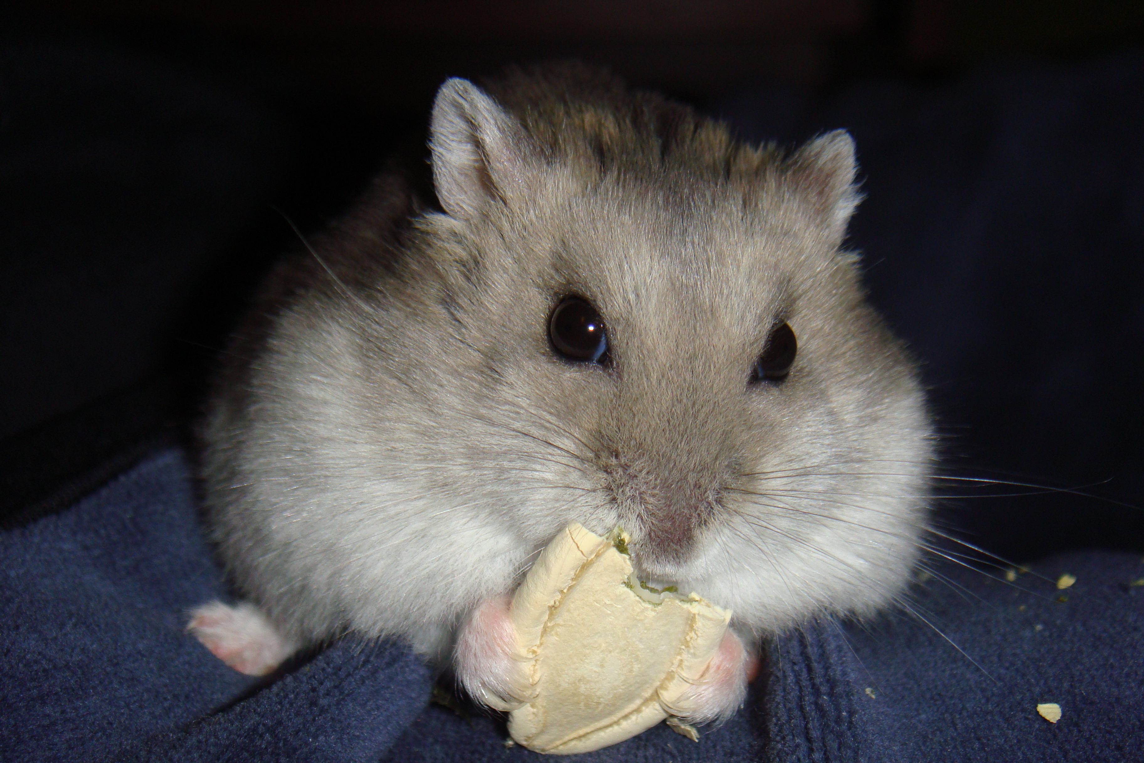 Djungarian hamster (Phodopus sungorus) named Świr eating pumpkin (Cucurbita) seed.